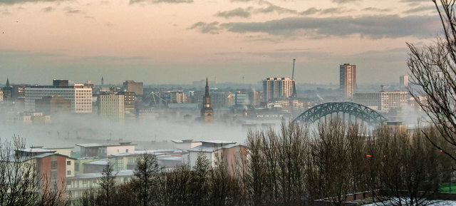 All Saints View from Bensham looking towards All Saints church in Newcastle.